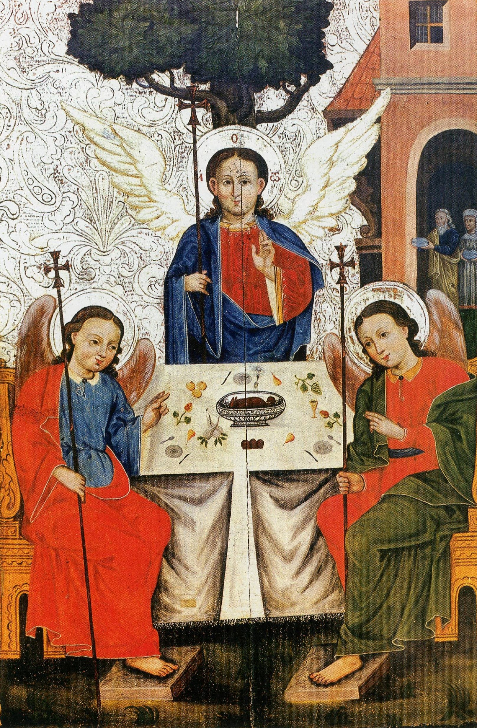 THE OLD TESTAMENT TRINITY. Mid 17th c. Wood, tempera. The Intercession Church, Ivanava, Brest region. Restoration - A. Shpunt.